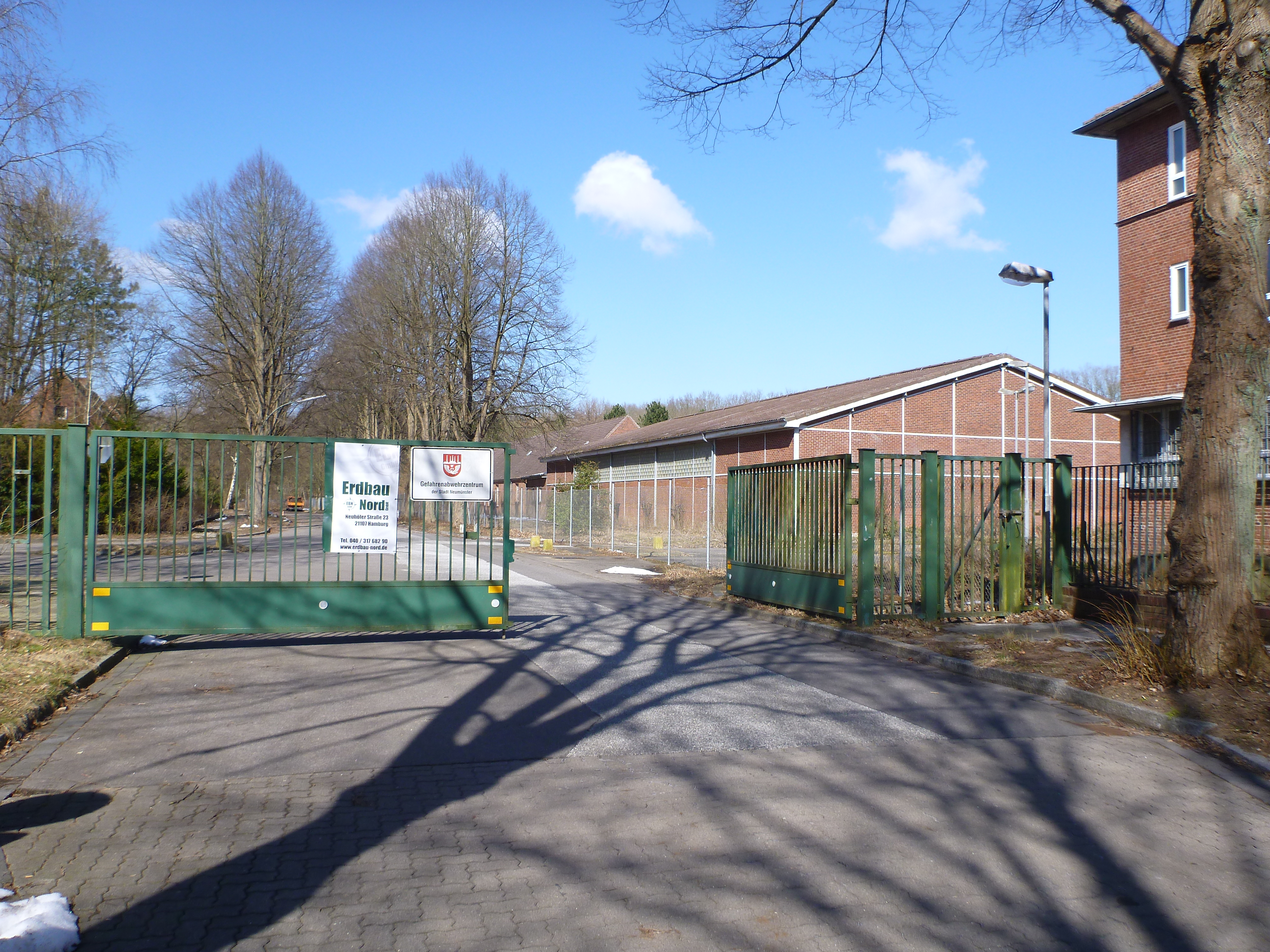 Entry of the civil protection centrum in the former military base Hindenburgkaserne in Neumünster